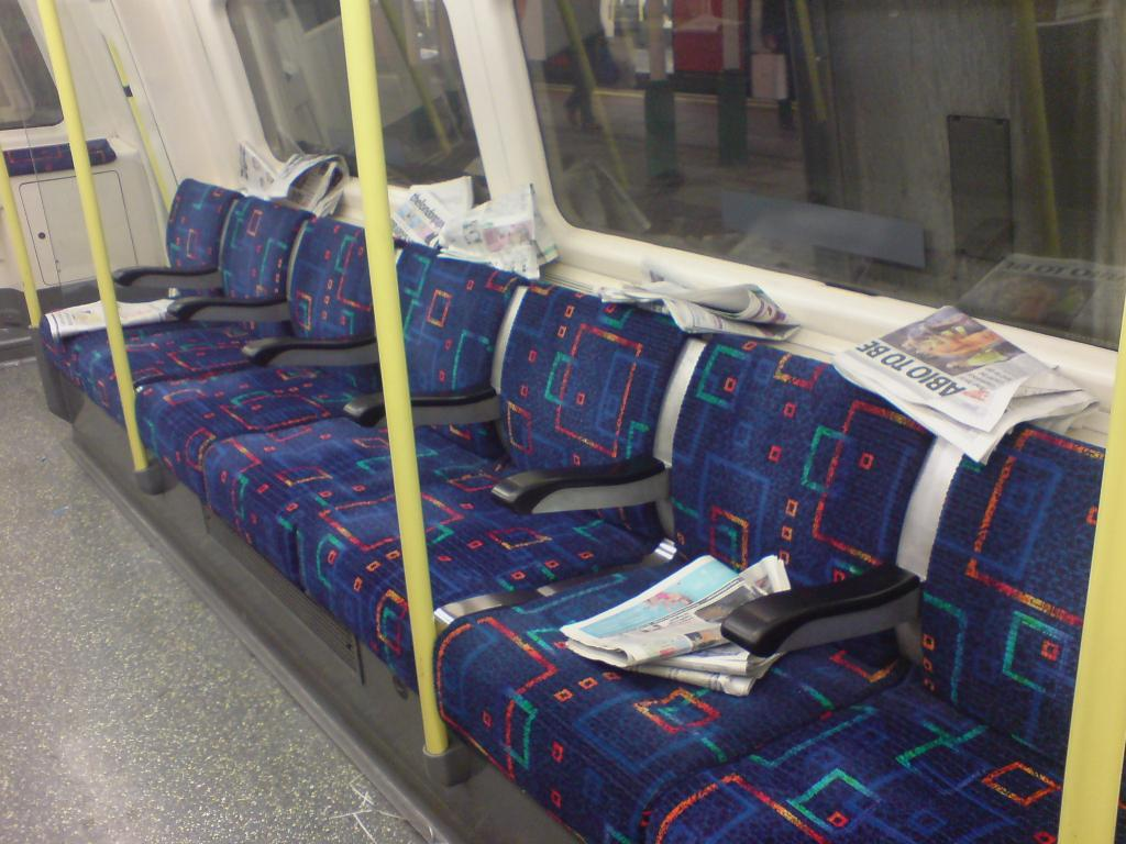 Empty Northern Line train at High Barnet station, with a typical smattering of free newspapers left on the train